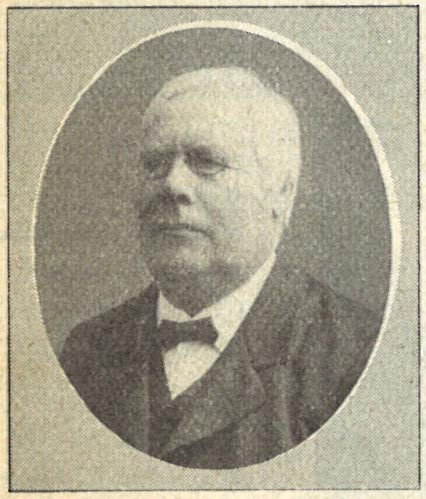 Christian Alfred Fahlcrantz (1835-1911),Swedish scholar, translator and poet.